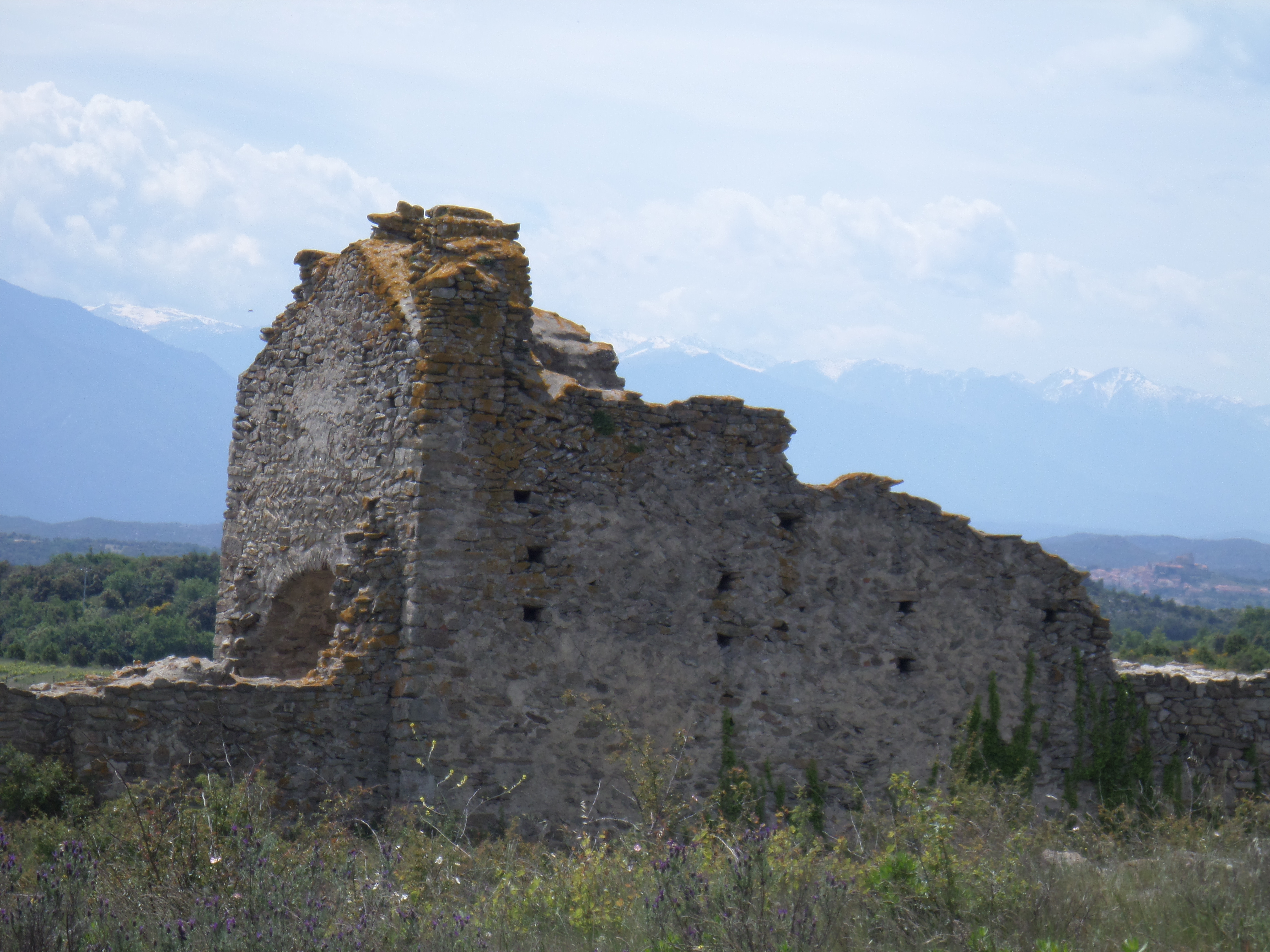 Church of Saint-Barthélemy de Jonqueroles (in ruins), Bélesta, Pyrénées-Orientales, France